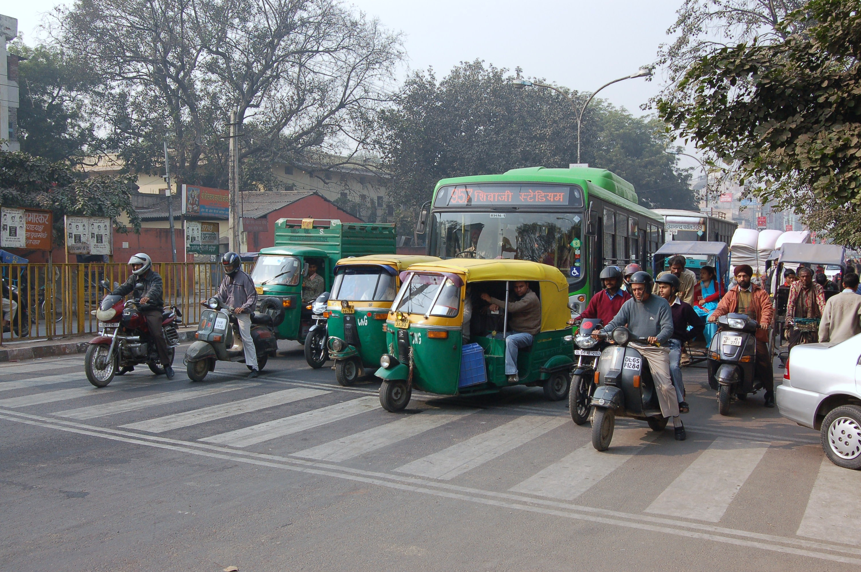 Street scene, Karol Bagh, Delhi, India.